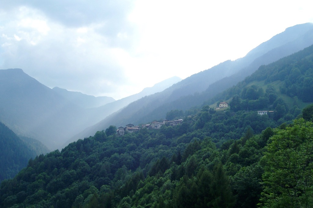 Loveno, Paisco Loveno, Val Camonica